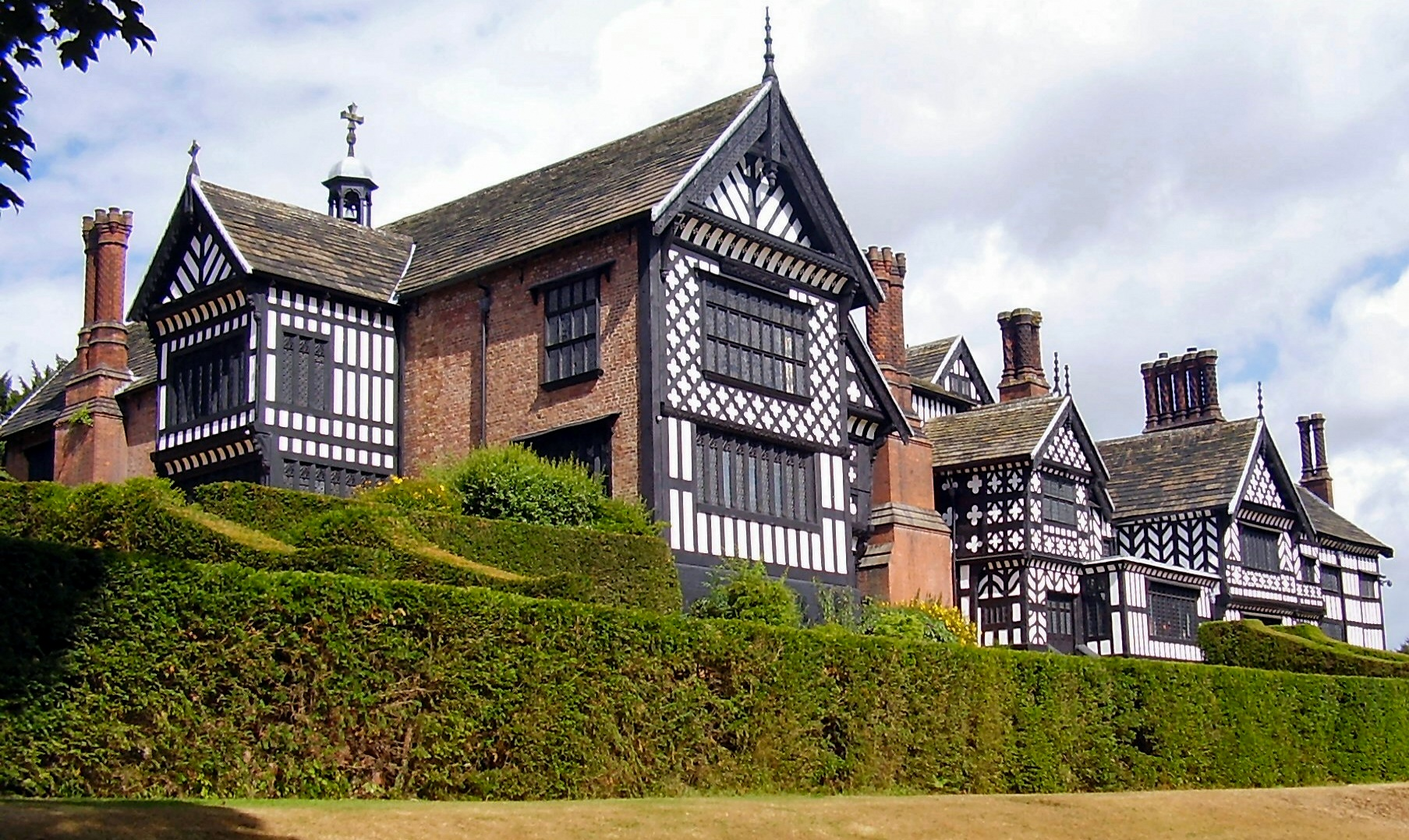 Bramall Hall from the east